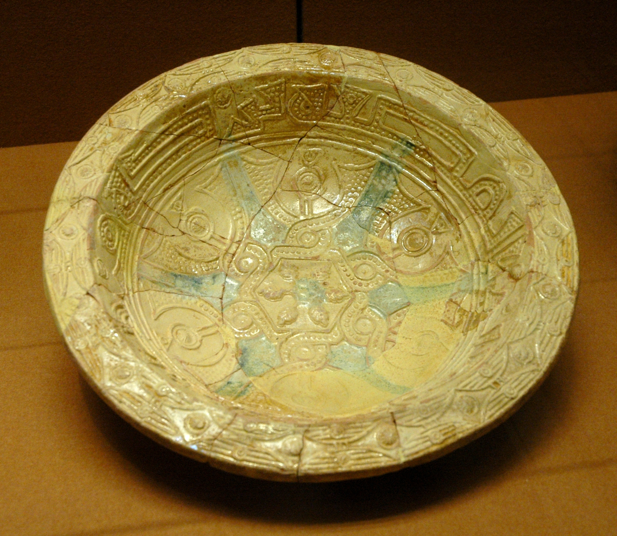 Cup with geometric decoration.